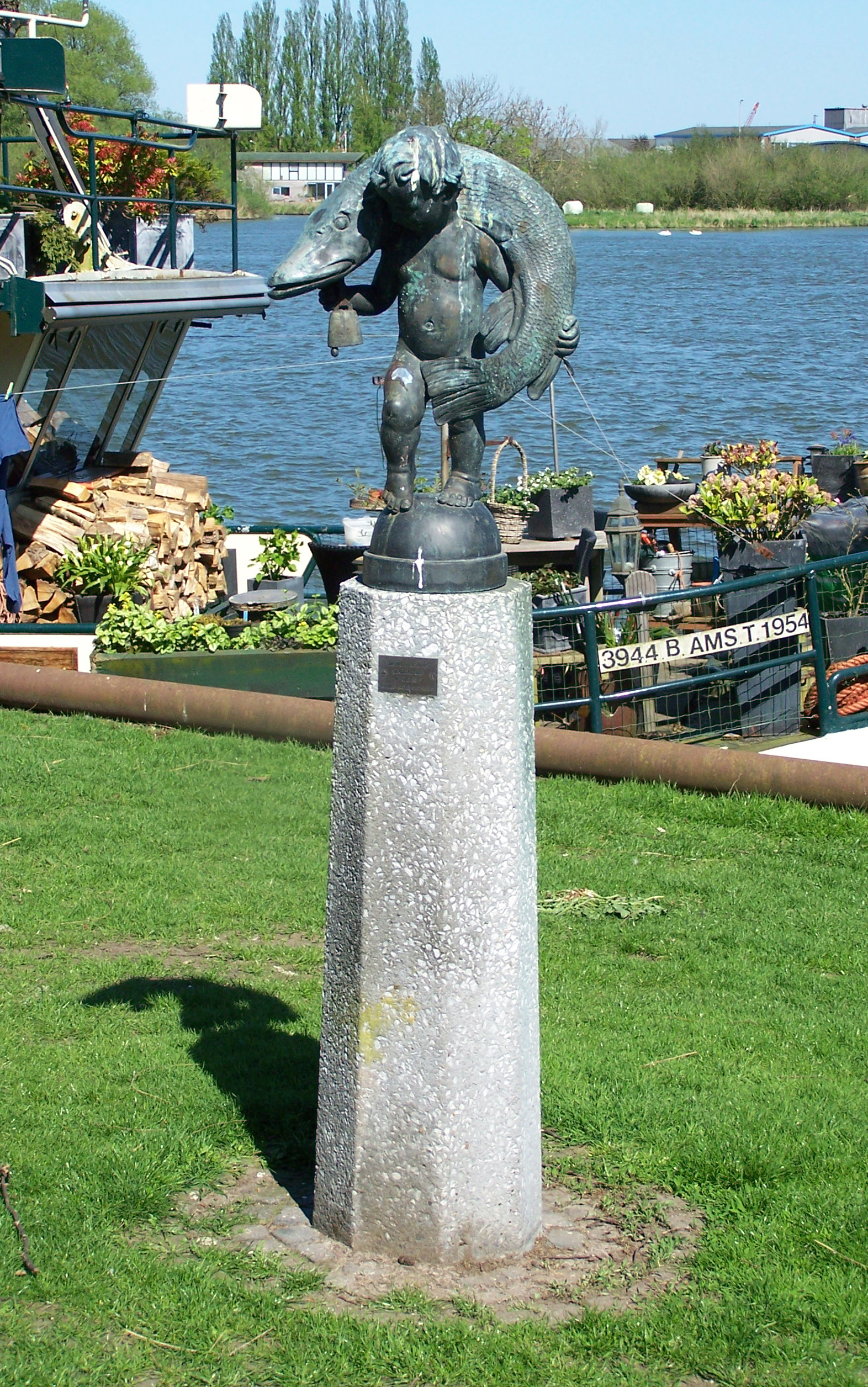 Sculpture of a boy with a fish. Creator unknown. (copy of a fountain-sculpture from 1914 in Teterow/Germany by Wilhelm Wandschneider) It was a gift by Willem Kolff in 1991. Placed at the park De la Sablonièrekade in Kampen.